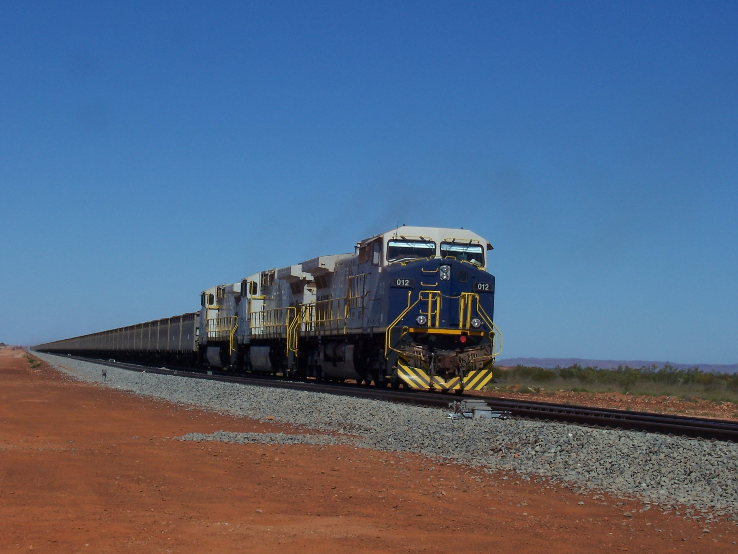 Fortescue Metals Group - GE CW44 DASH 9 locomotives, Unit 012 leading, on a loaded 220 wagon, 2.6km long, 31,784 ton, iron ore train. Location Pilbara region, Western Australia. May 2008.